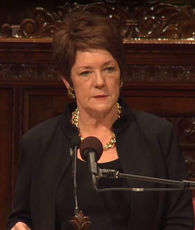 American author Sue Monk Kidd filmed live at Westminster Town Hall Forum (Minneapolis, Minnesota), February 11, 2014, speaking on the topic "Life is a Story". Published on Feb 25, 2014.